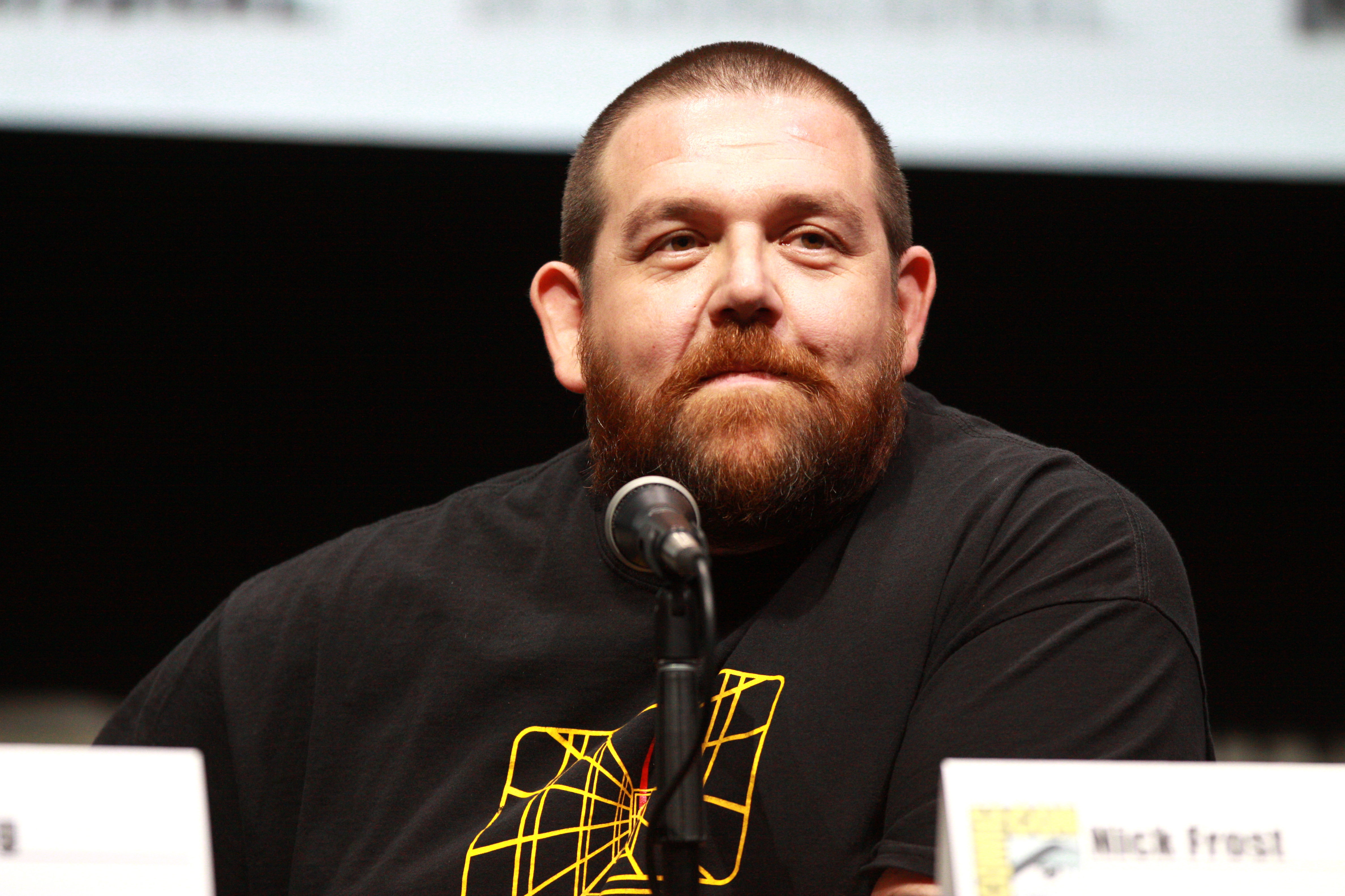 Nick Frost speaking at the 2013 San Diego Comic Con International, for "The World's End", at the San Diego Convention Center in San Diego, California.